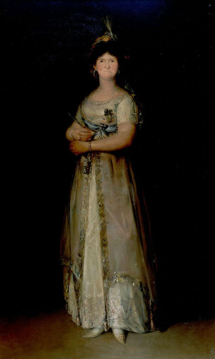 Portrait of Maria Luisa of Parma (1751-1819)